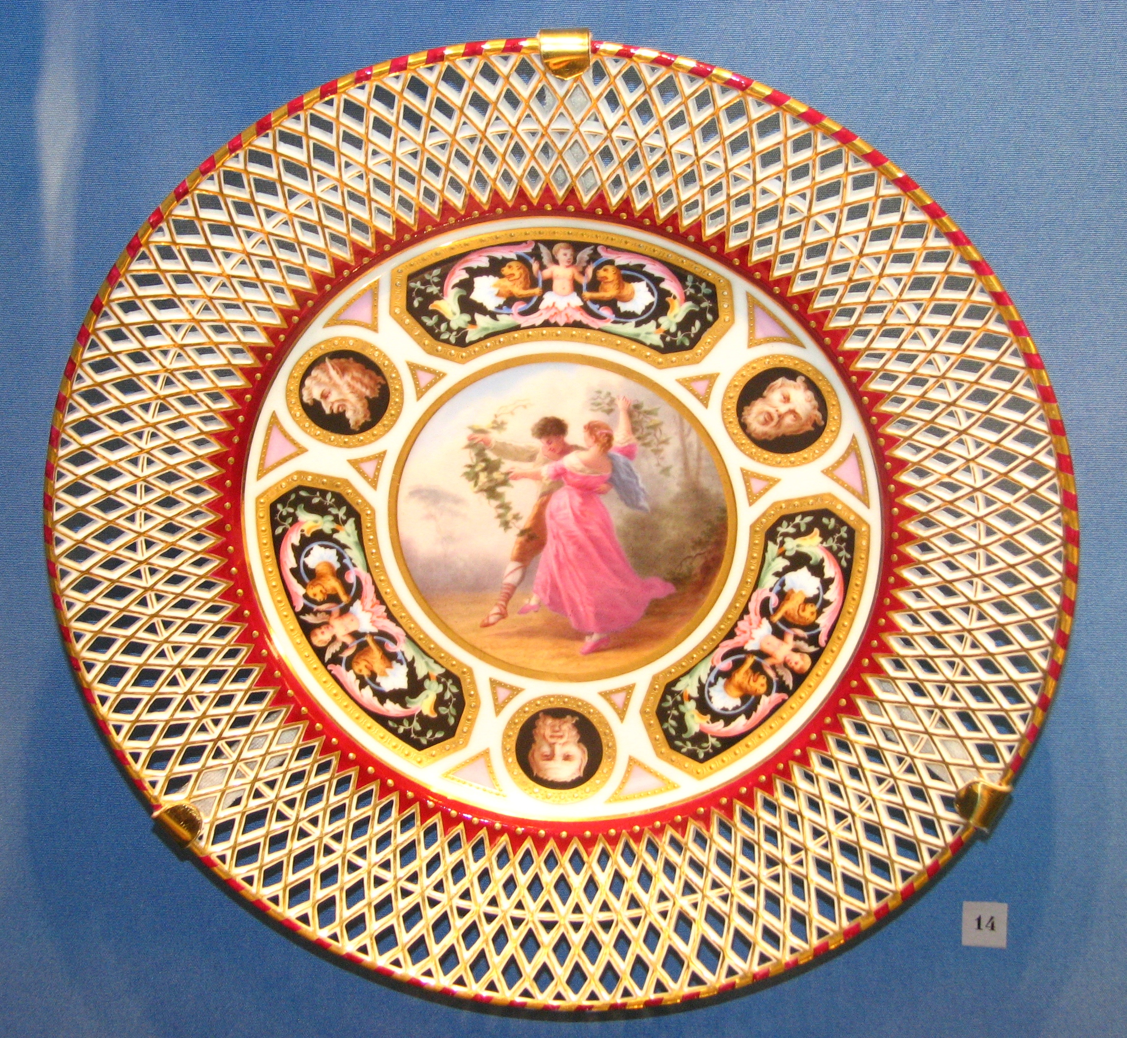 St.Petersburg. The Museum of the Imperial Porcelain Factory. Plate from the service decorated with grotesque ornament and scenes. Imperial Porcelain Factory, Russia. 1881-1884. Porcelain, piercing, polychrome overglaze painting, gilding.